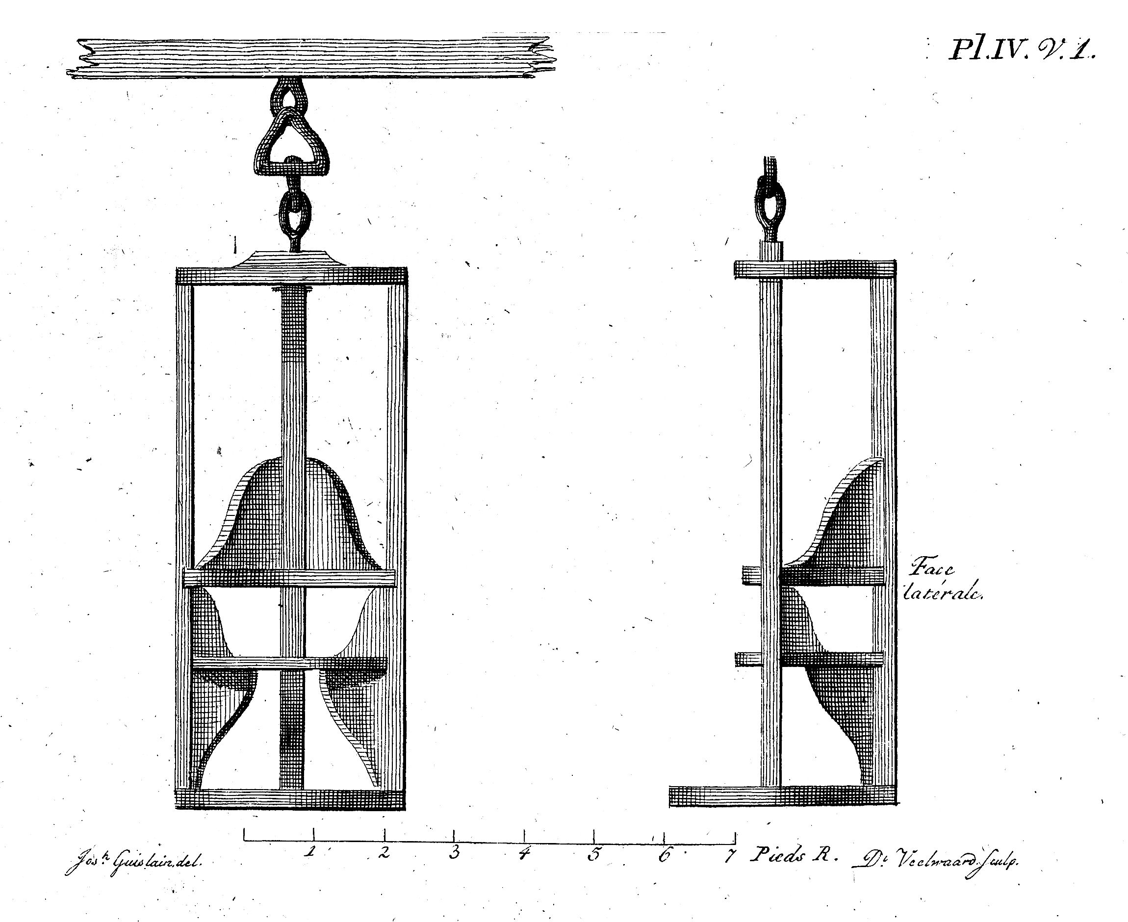 A rotary machine constructed by Hayner used in the Berlin Charite. From: Joseph Guislain: Traité sur l'aliénation mentale et sur les hospices des aliénés. Vol. 1, Pl. 4. (1828)